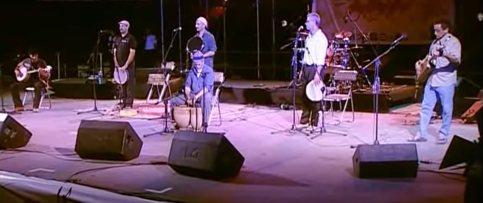 Izenzaren performing during Guelmim music festival 2009